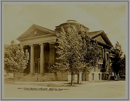 First Baptist Church, Regina, Sasktachewan circa 1920